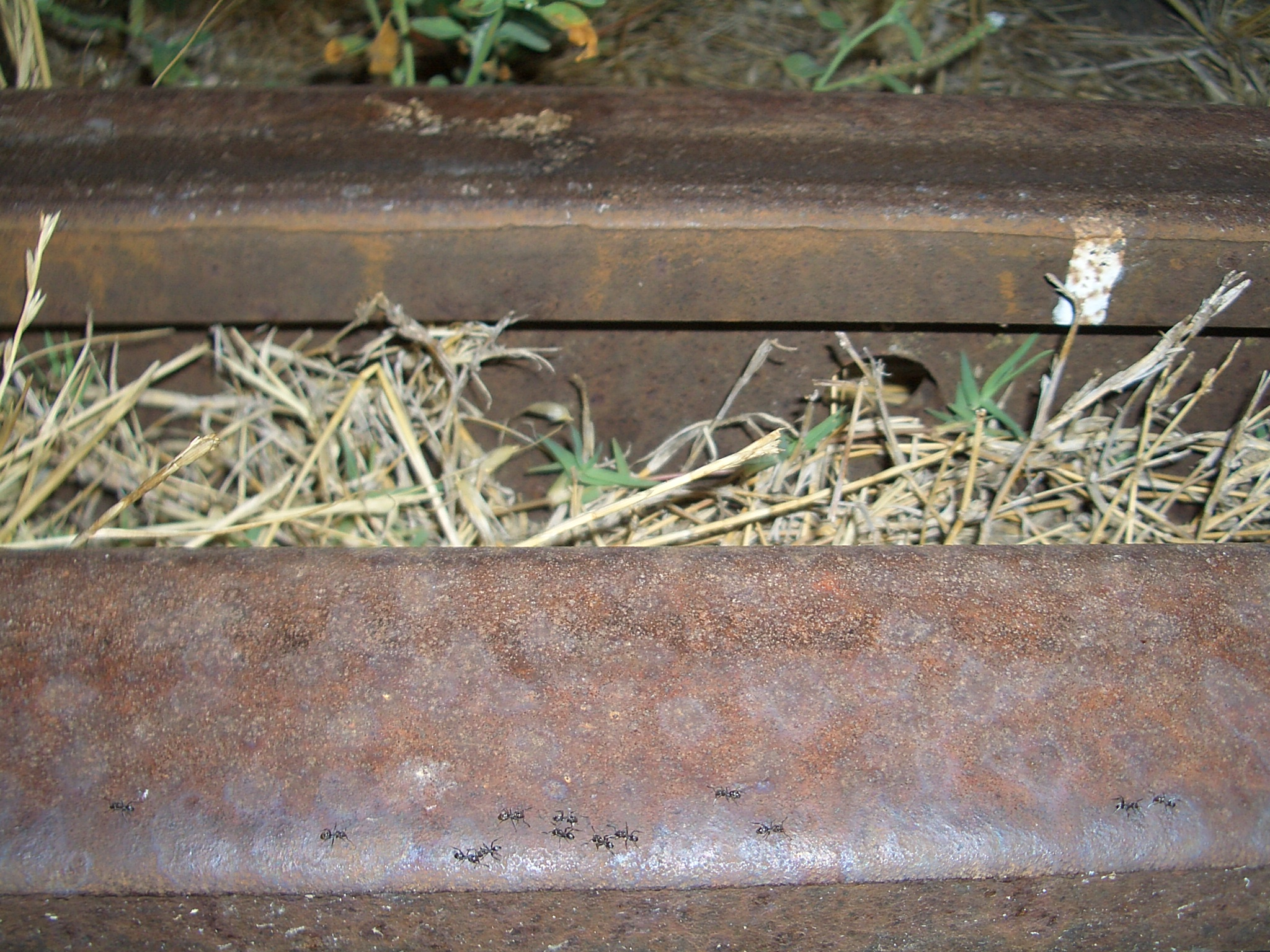 Semi-abandoned rail tracks in Kadina (Yorke Peninsula, South Australia) are now mostly used by the ants. (The rails pictured are two rails on the same side of the track: this is the dual-gauge road, with the outer rail for the Irish gauge, and the inner, rustier one, for the standard gauge)